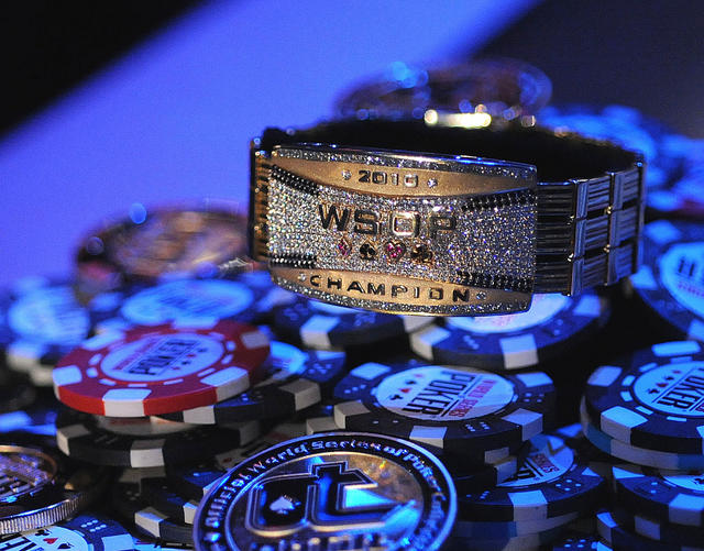 2010 World Series of Poker Main Event bracelet